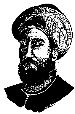 Abulcasis, an Andalusian physician, surgeon, chemist, cosmetologist, and scientist.